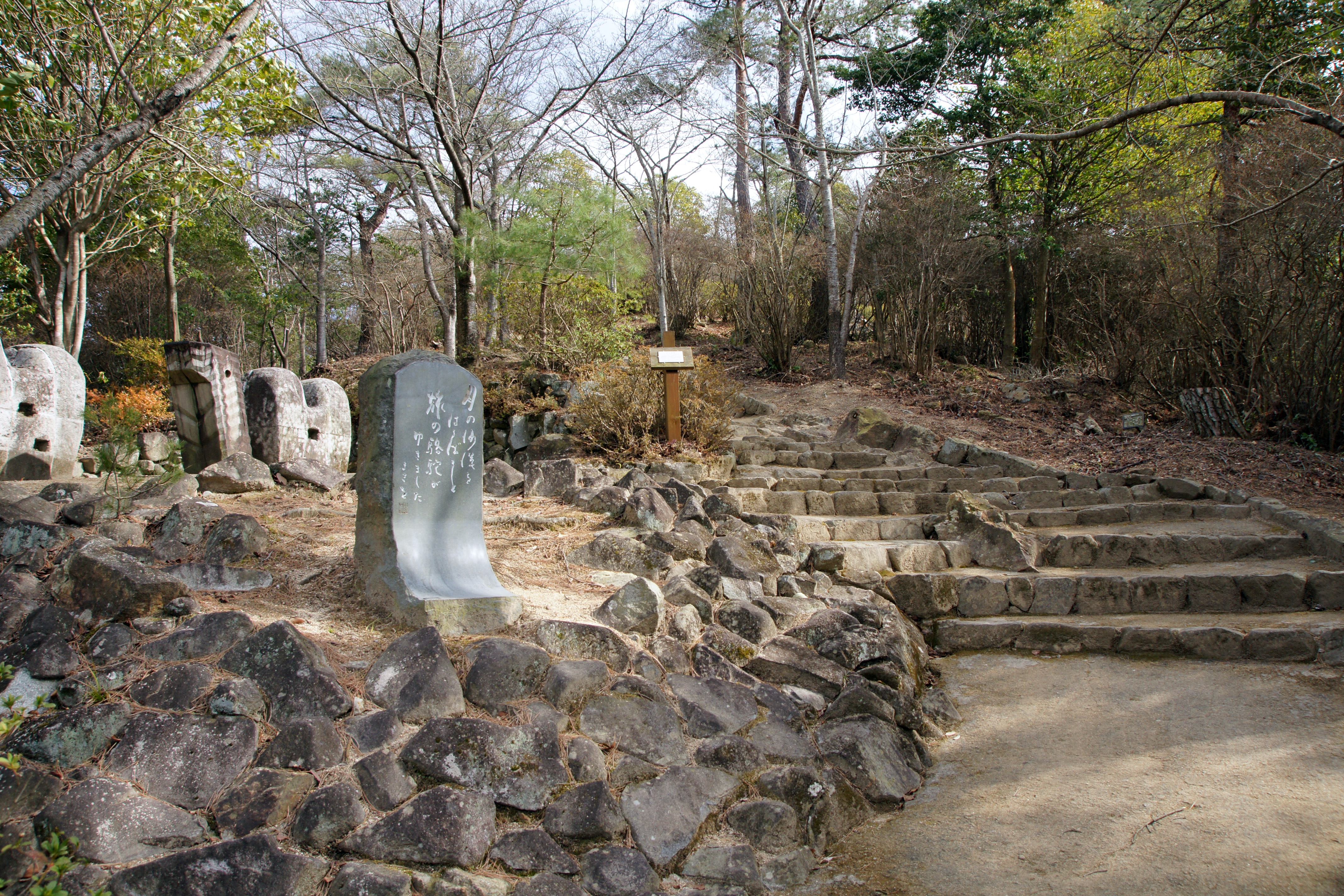 "Doyo-no-komichi" on Shirasagi-yama Park, Tatsuno, Hyogo prefecture, Japan